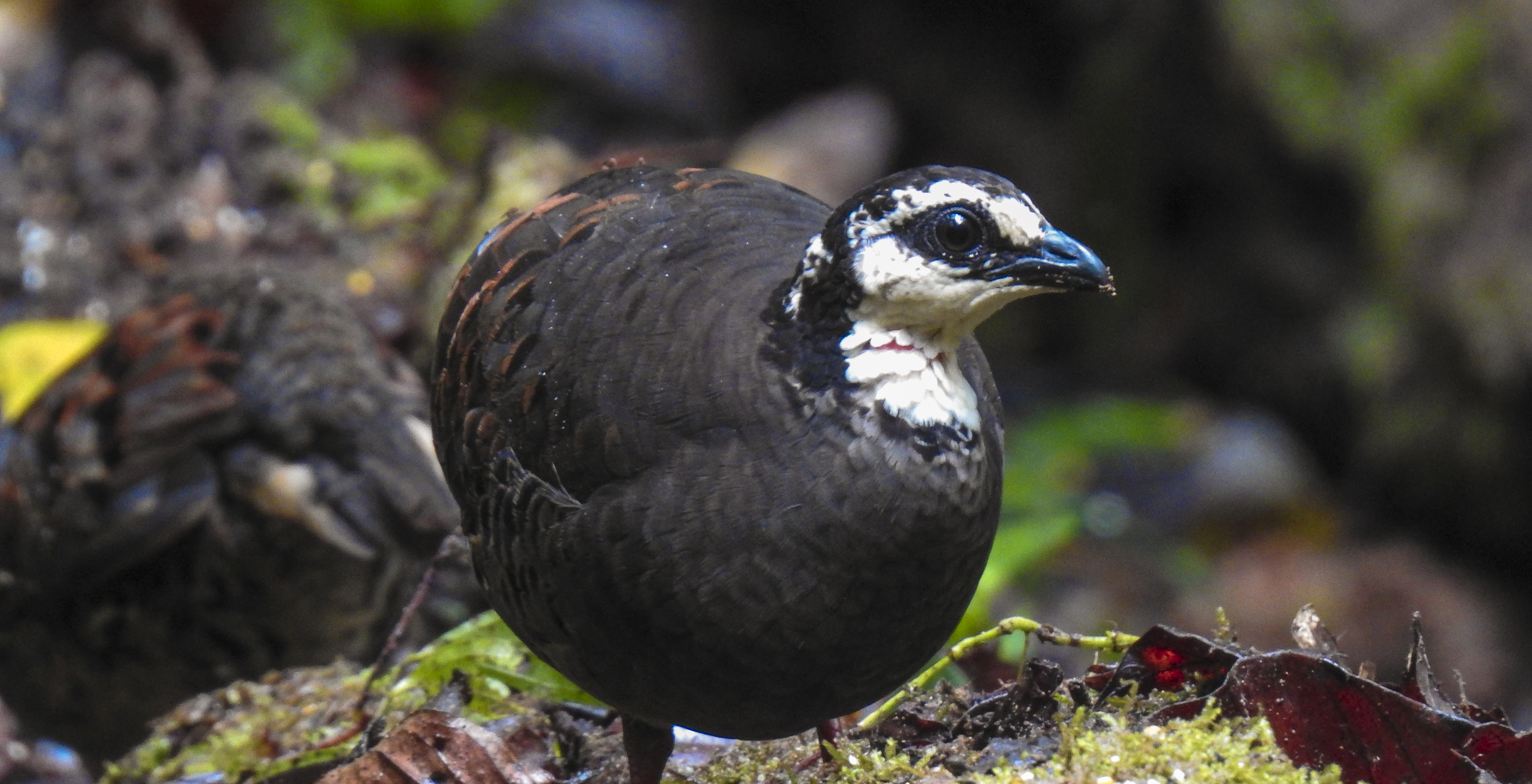 photo location : kawah ijen info